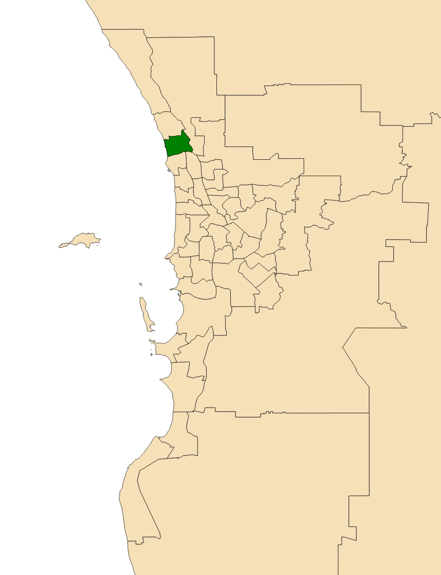 Location of the electoral district of Joondalup in the Perth metropolitan area, Western Australia as of the 2017 WA state election.